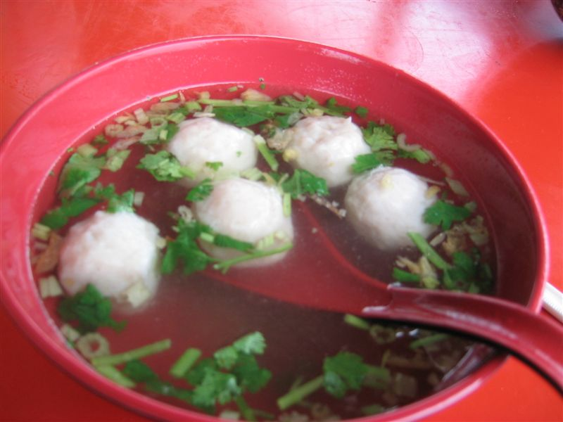 Pork ball soup (貢丸湯).